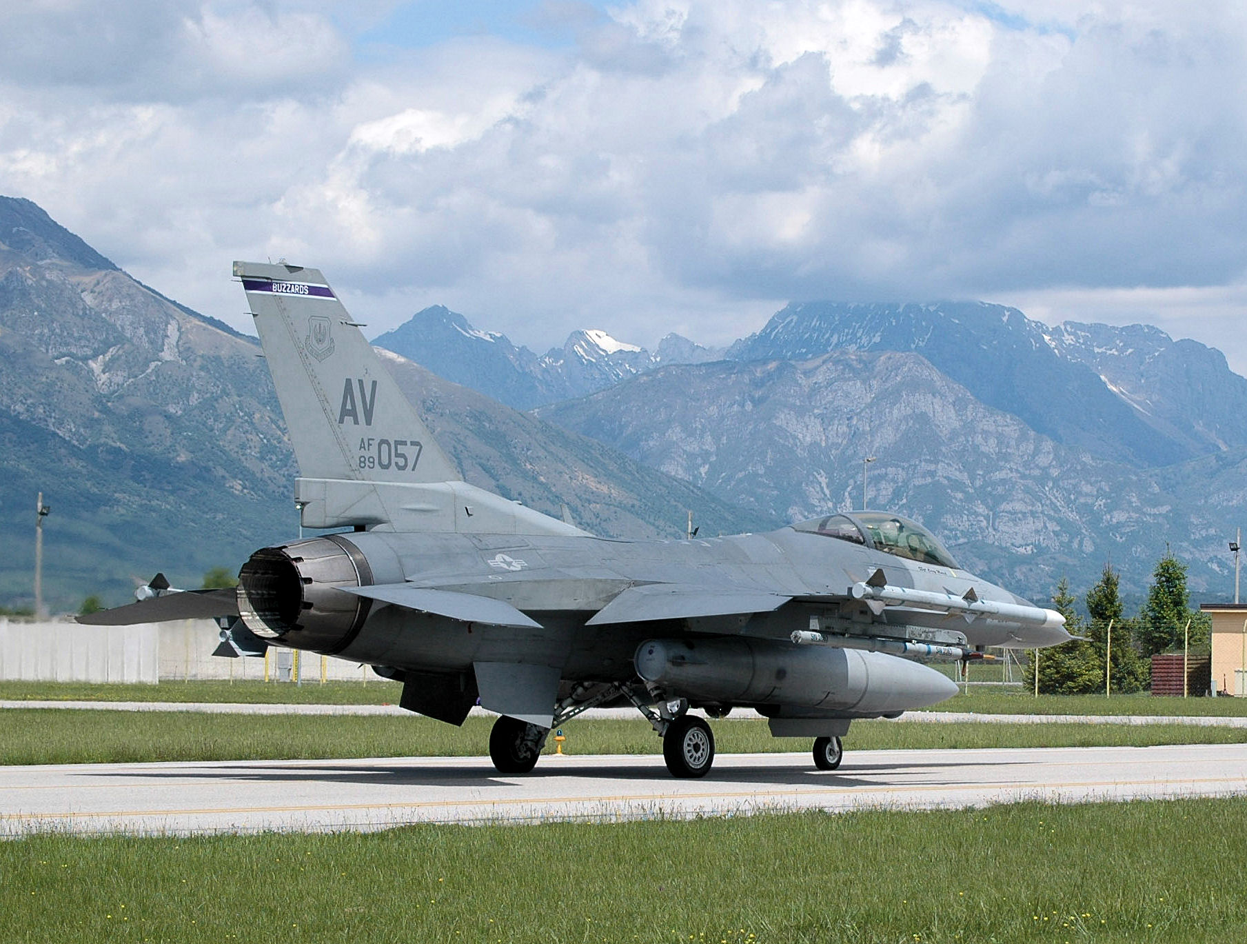 Capt. Kevin Di Falco, 510th Fighter Squadron pilot, taxies down the Aviano runway before taking off on a routine training mission May 5, 2009. This particular flight pushed aircraft tail number 2057 past its 7,000 flying hour-mark, which is a first in the Aviano F-16 Fighting Falcon fleet. (U.S. Air Force photo/Staff Sgt. Lindsey Maurice)